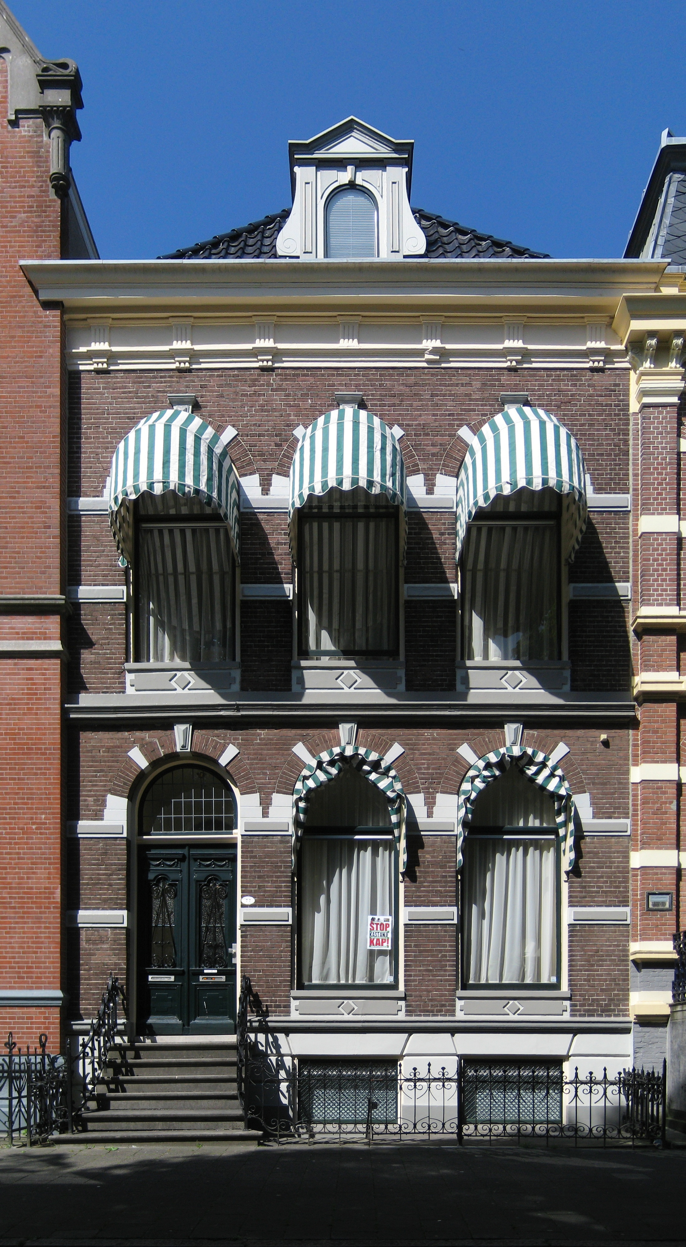 House (c. 1895) in the Dutch city of Groningen.